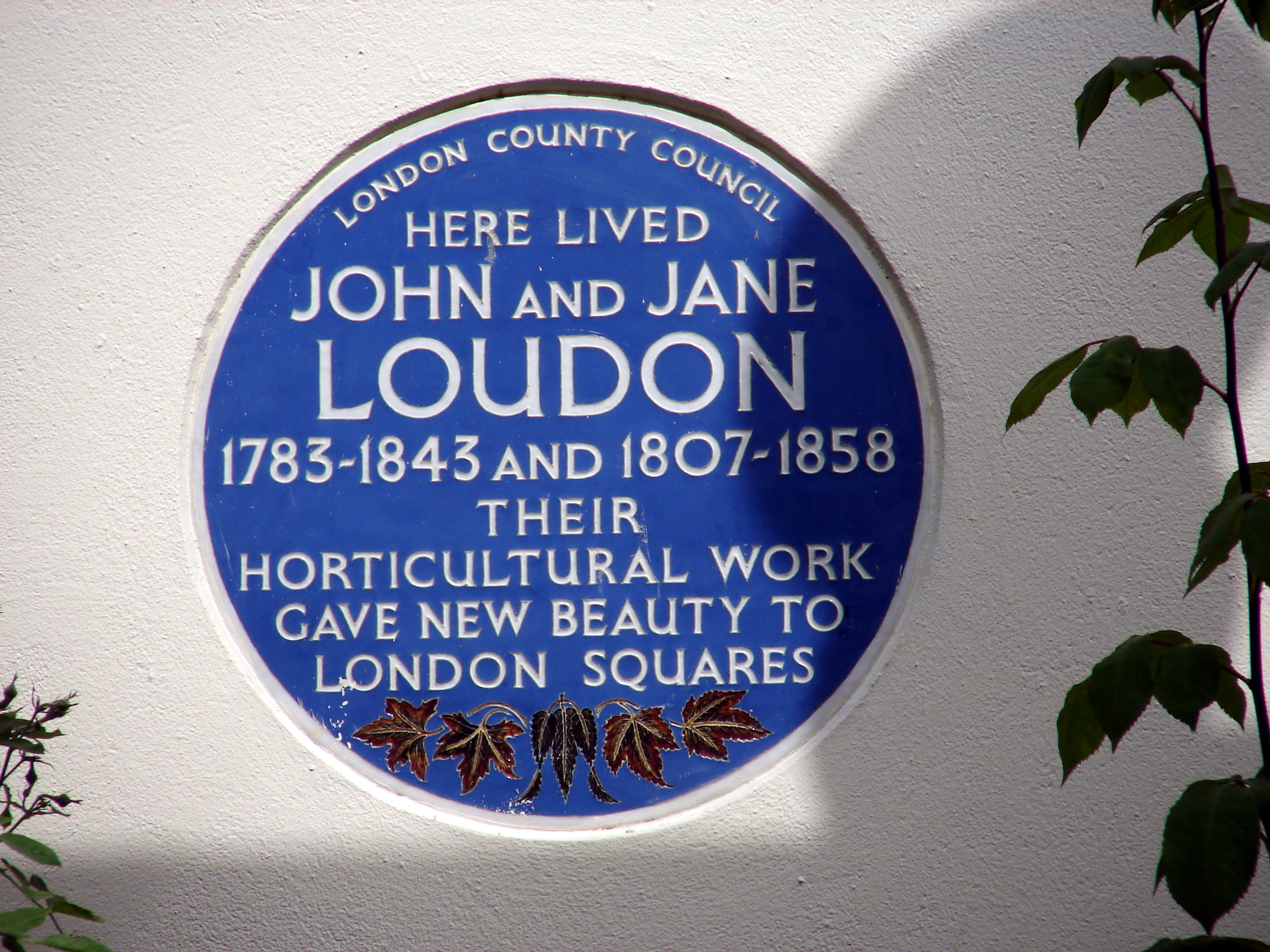 John and Jane Loudon blue plaque at 3 Porchester Terrace, Bayswater, London London County CouncilHere lived John and Jane Loudon1783-1845 and 1807-1858Their horticultural work gave new beauty to London squares